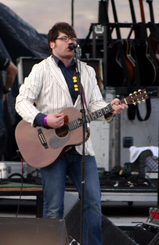 Colin Meloy, frontman of The Decemberists, playing live at the 2006 Sasquatch! Music festival in Central Washington..